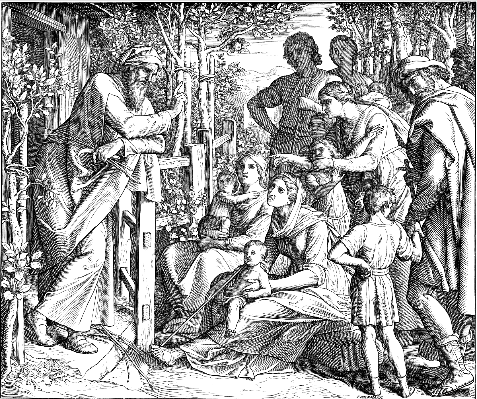 Woodcut for "Die Bibel in Bildern", 1860.